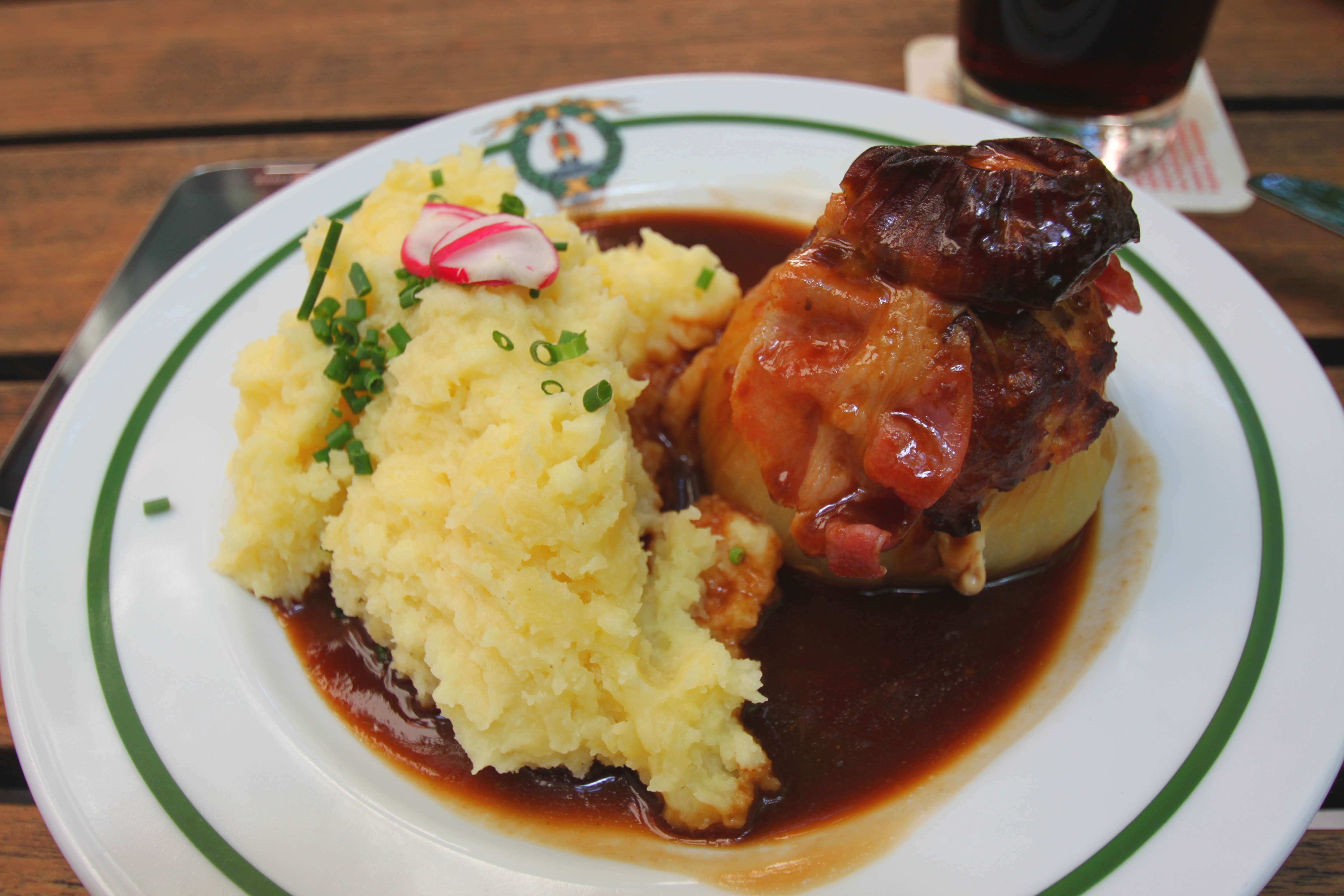 With minced pork belly stuffed onion, Bamberger Zwiebel, in smoked beer sauce and mash potatoes in Schlenkerla in Bamberg